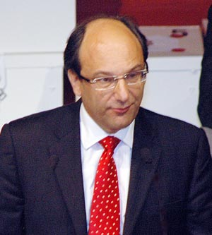 Peter Caruana giving acceptance speech at the 2007 Election.